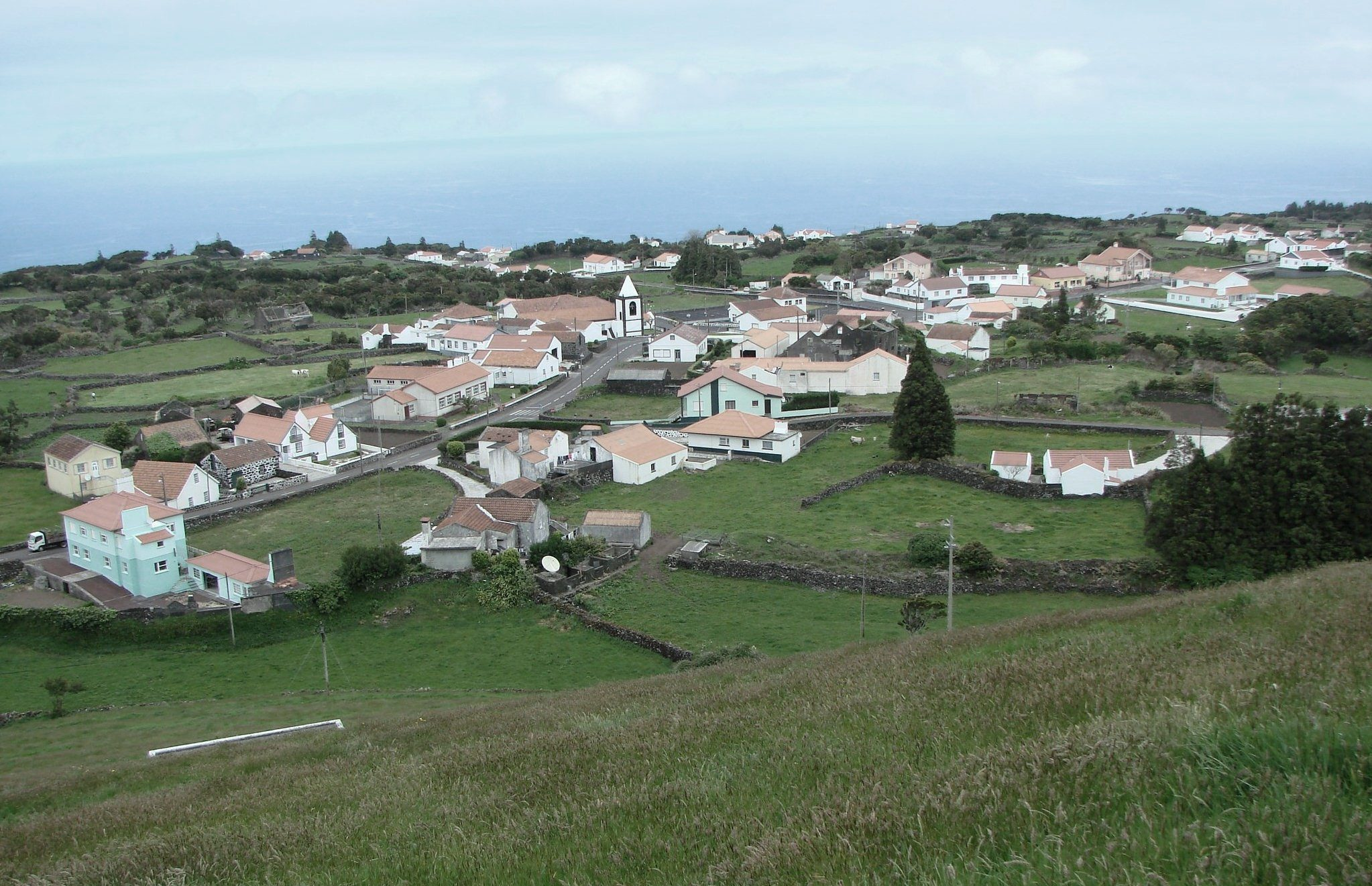 Norte Pequeno 2011